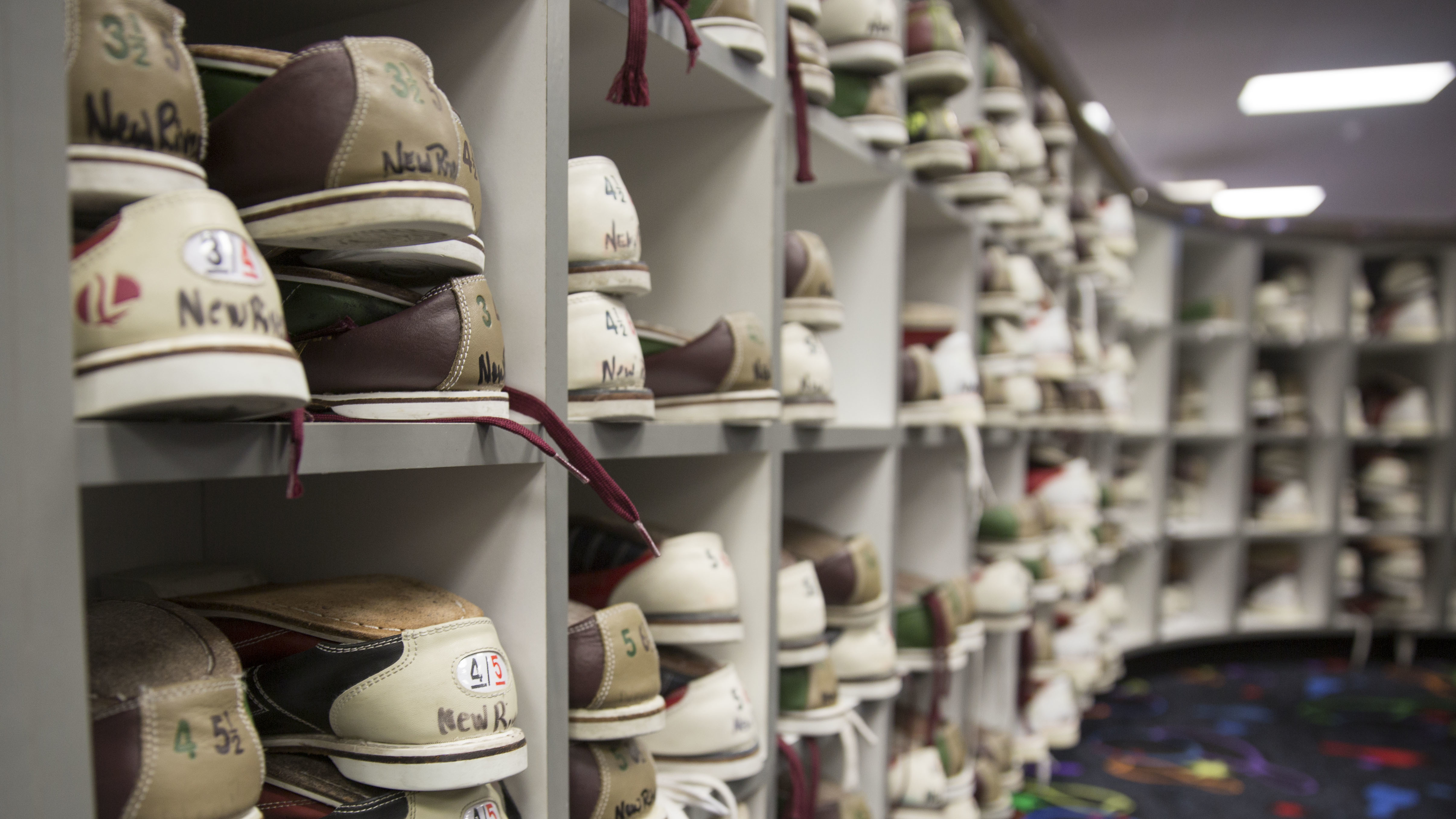 Shoes line the walls at at the New River Bowling Center, Nov. 17. The bowling center aboard Marine Corps Air Station New River has 16 lanes for fun and recreation as well as arcade games, a pool table and a Snack Bar.